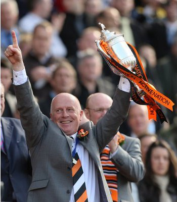 peter houston scottish cup winning manager 2010